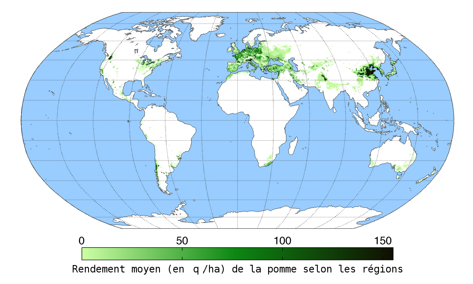 Map of apple production (average percentage of land used for its production times average yield in each grid cell) across the world compiled by the University of Minnesota Institute on the Environment with data from: Monfreda, C., N. Ramankutty, and J.A. Foley. 2008. Farming the planet: 2. Geographic distribution of crop areas, yields, physiological types, and net primary production in the year 2000. Global Biogeochemical Cycles 22: GB1022